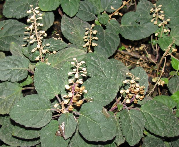 Scutellaria aurata, frutescence, Botanical garden Heidelberg